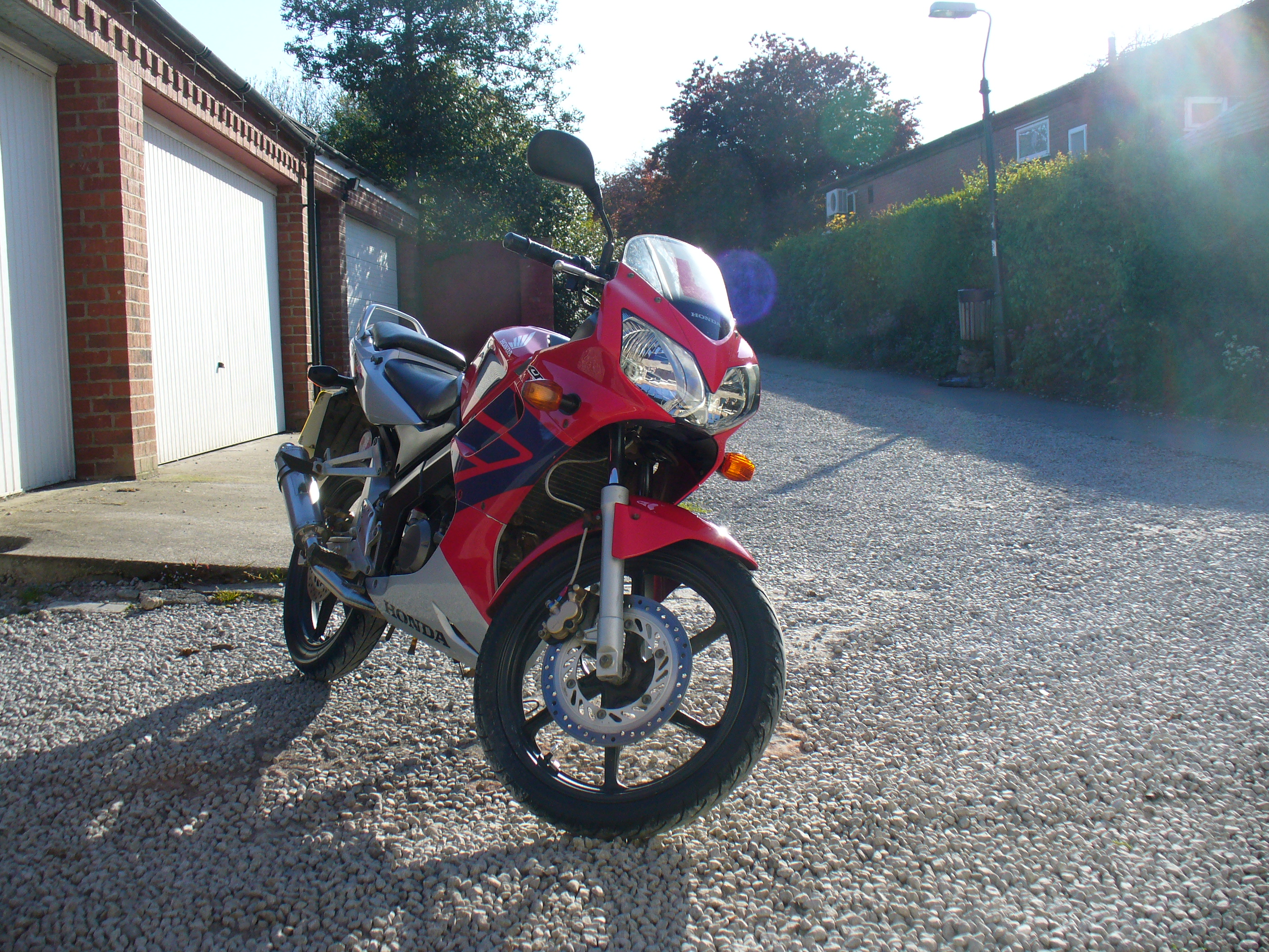 A picture of a 2006 Honda CBR125R, modified with a K&N air filter and tyga racing exhaust.